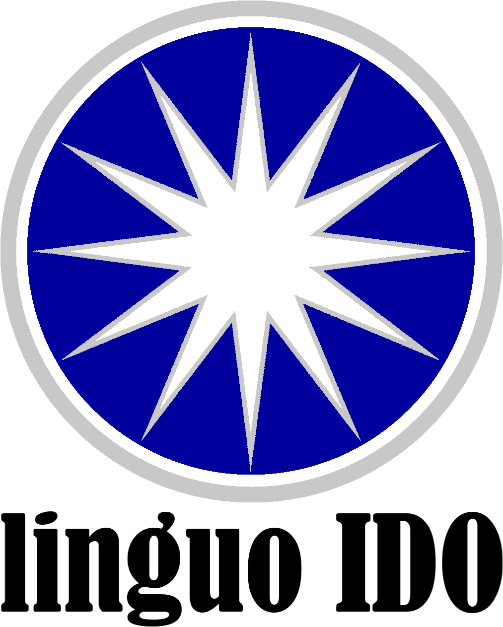 Logo of Ido, a constructed auxiliary language based on Esperanto, created in 1907.Ido: Logo di la linguo Ido.